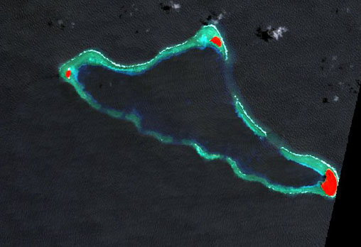 Landsat 7 false-colour image of Lamotrek Atoll, Yap State, Federated States of Micronesia